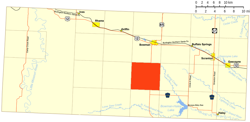 Map of Bowman County, ND, with Gem Township highlighted